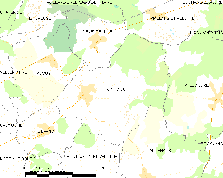 Map of French municipality